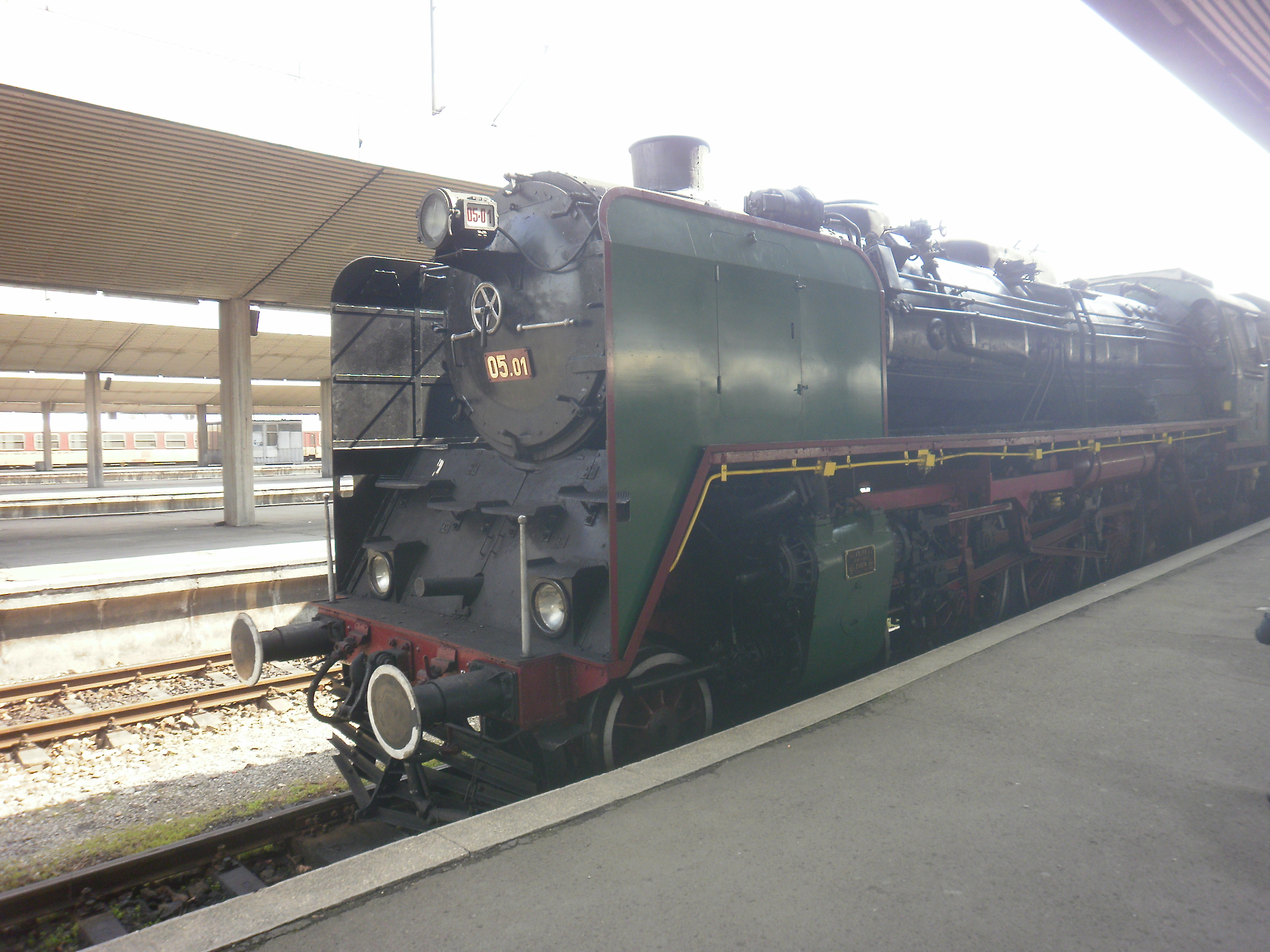 Steam locomotive Sofia - Bankya, Bulgaria.